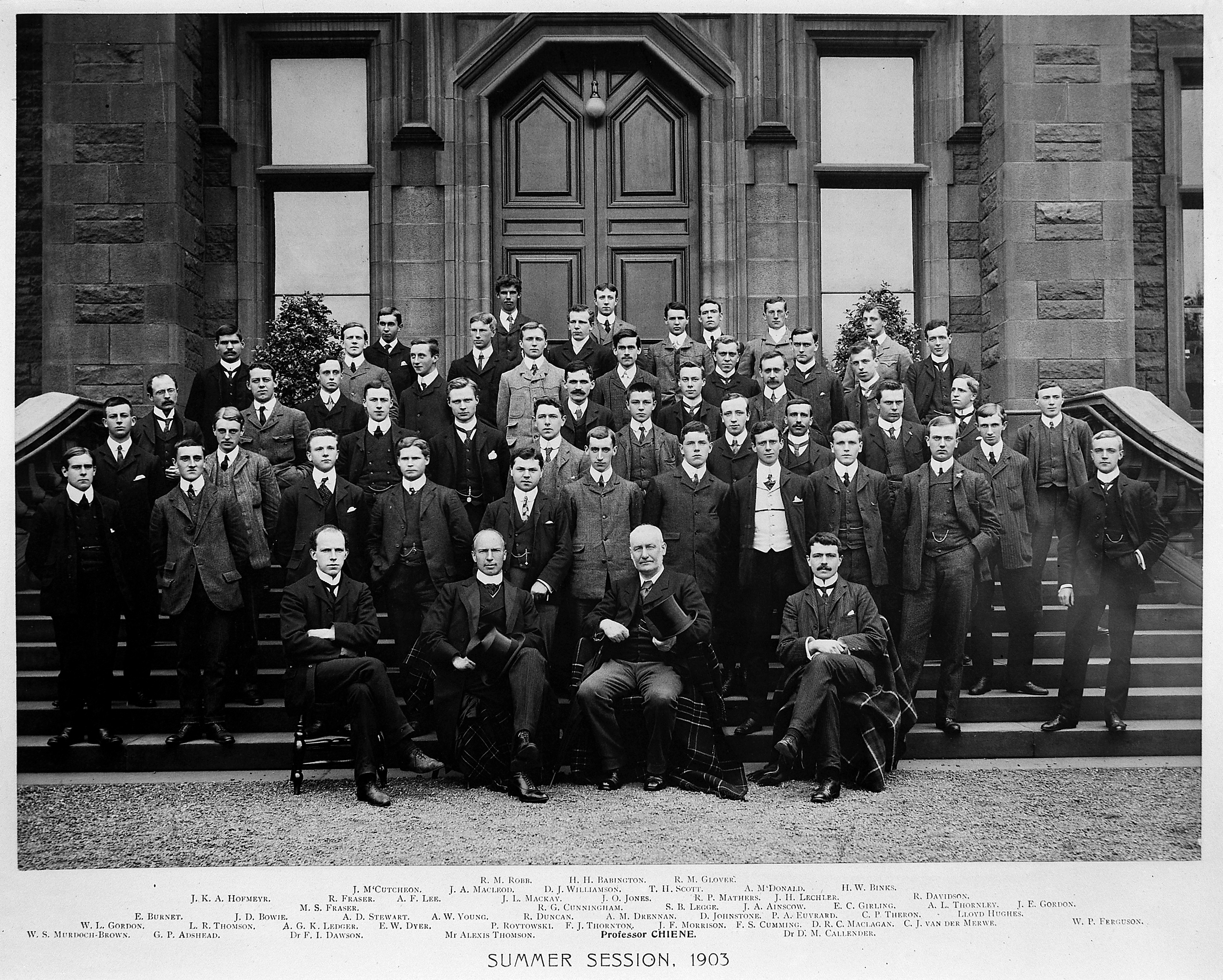 Medical School? Persons present, front row, left to right: W.S. Murdoch-Brown, G.P. Adshead, Dr. F.I. Dawson, Mr. Alexis Thomson, Prof Chiene, Dr. D.M. Callender. 2nd row: W.L. Gordon, L.R. Thomson, A.G.K. Ledger, E.W. Dyer, P. Roytowski, F.J. Thornton, J.F. Morrison, F.S. Cumming, D.R.C. Maclagan, C.J. van der Merwe, W.P. Ferguson. 3rd row: E. Burnet, J.D. Bowie, A.D. Stewart, A.W. Young, R. Duncan, A.M. Drennan, D. Johnstone, P.A. Euvrard, C.P. Theron, Lloyd Hughes. 4th row: M.S. Fraser, R.G. Cunningham, S.B. Legge, J.A. Ainscow, E.C. Girling, A.L. Thornley, J.E. Gordon. 5th row: J.K.A. Hofmeyr, R. Fraser, A.F. Lee, J.L. Mackay, J.O. Jones, R.P. Mathers, J.H. Lechler, R. Davidson. 6th row: J. M'Cutcheon, J.A. Macleod, D.J. Williamson, T.H. Scott, A. M'Donald, H.W. Binks. 7th row: R.M. Robb, H.H. Babington, R.M. Glover. And C.J. van der Merwe; T.H. Scott Iconographic Collections Keywords: E.C. Girling; E. Burnet; J.O. Jones; R.M. Glover; F.I. Dawson; J.M. M'Cutcheon; D.M. Callender; D.J. Johnstone; D.R.C. MacLagan; A.M. M' Donald; W.L. Gordon; C.J. Merwe, van der; J.A. MacLeod; T.H. Scott; John Chiene; edinburgh university group; J.K.A. Hofmeyr; J.D. Bowie; J.L. Mackay; P. A. Euvrard; Alexis Thompson; F.J. Thornton; R. P. Mathers; J.F. Morrison; R. Davidson; A.L. Thornley; L.R. Thomson; H. W. Binks; Lloyd Hughes